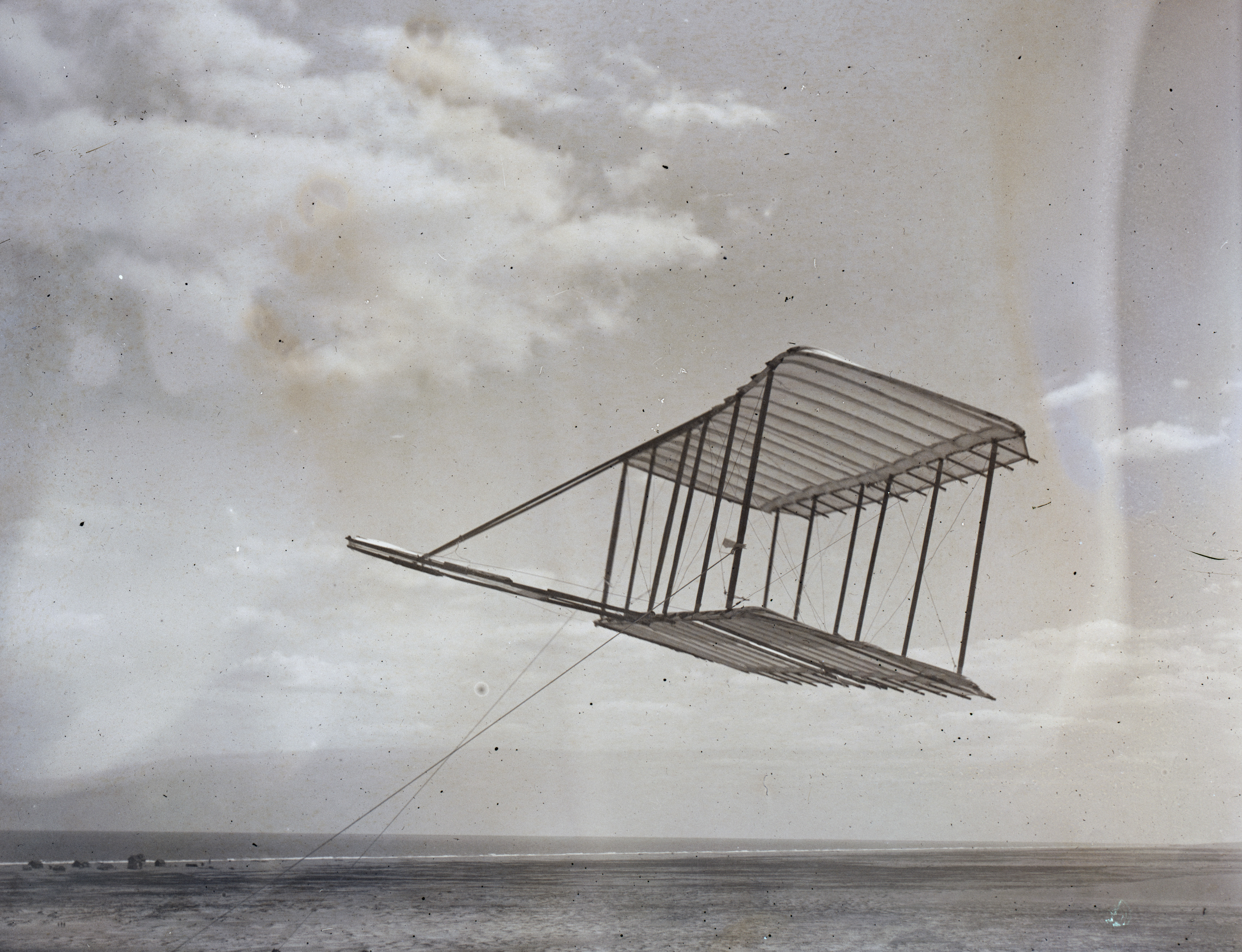 Wright brothers 1900 glider flying as a kite. (CALL NUMBER: LC-W85- 96 [P&P] REPRODUCTION NUMBER: LC-DIG-ppprs-00556 (digital file from original)LC-W851-96 (b&w film copy neg.